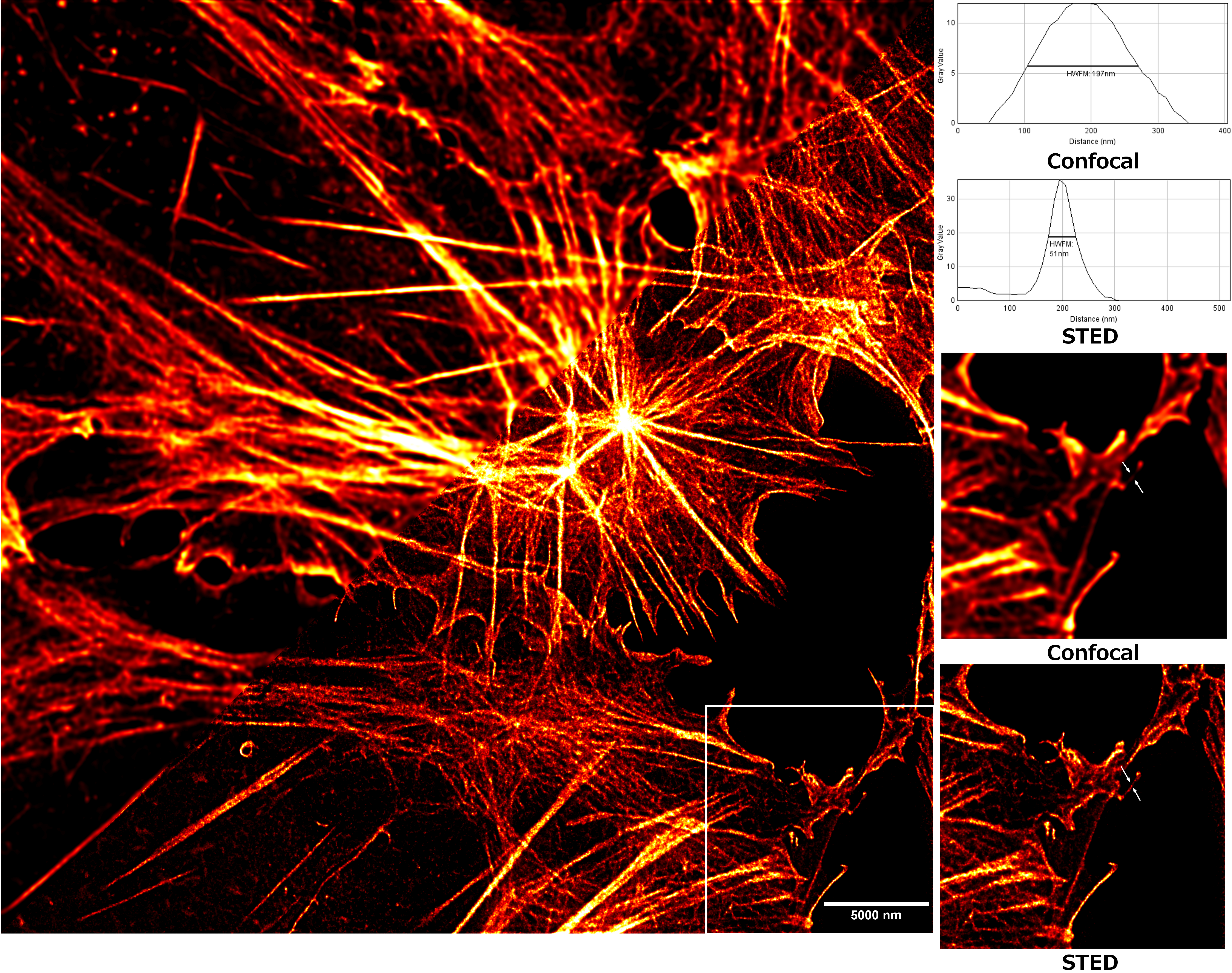 A figure showing the resolution improvement between traditional confocal microscopy and stimulated emission depletion (STED) microscopy. Cells were stained with 647-phalloidin to show actin filaments and the images were taken on a Leica SP5 2P STED microscope. FWHM - Full width at half maximum